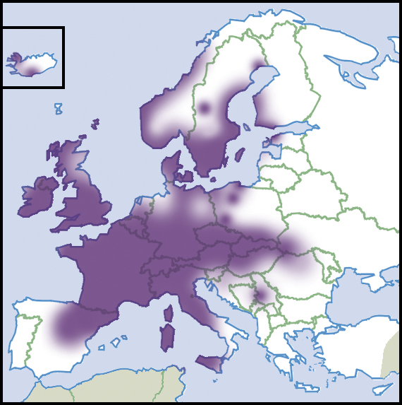 Balea perversa (Linnæus, 1758). Distributional range in Europe, scientific state of knowledge of 2012. Source description in English. Light colour indicated rare occurrences or regions where the species could eventually be expected to occur. Dark colour indicated relatively reliable occurrences, as well as regions where the species was expected to occur, and where the species was not known to be extremely rare. Dark colour indications were not necessarily based on published records. Species summary in AnimalBase